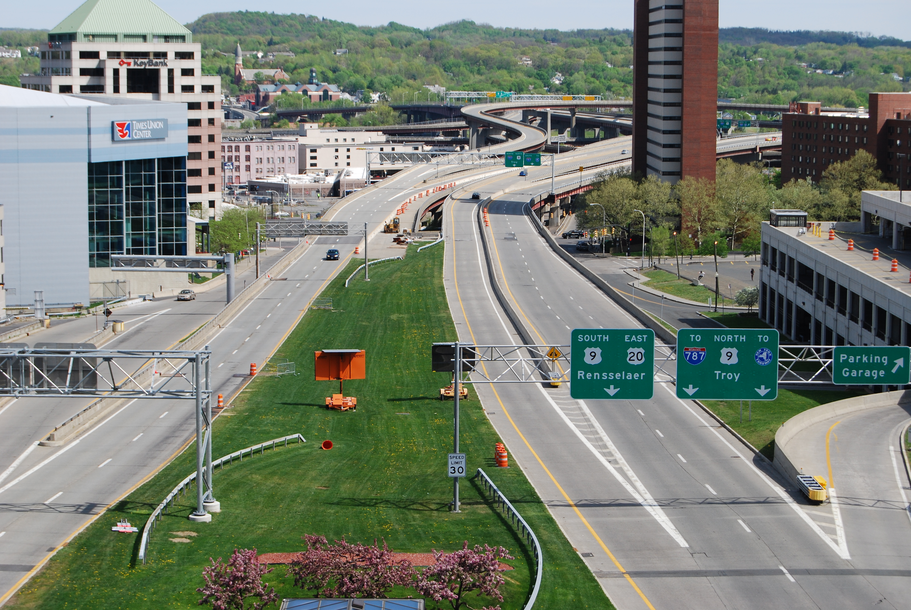 View of the South Mall Arterial from the Empire State Plaza in Albany, New York. Also in the photo is the Times Union Center (formerly known as the Pepsi Arena, as shown) and the Dunn Memorial Bridge in the background.